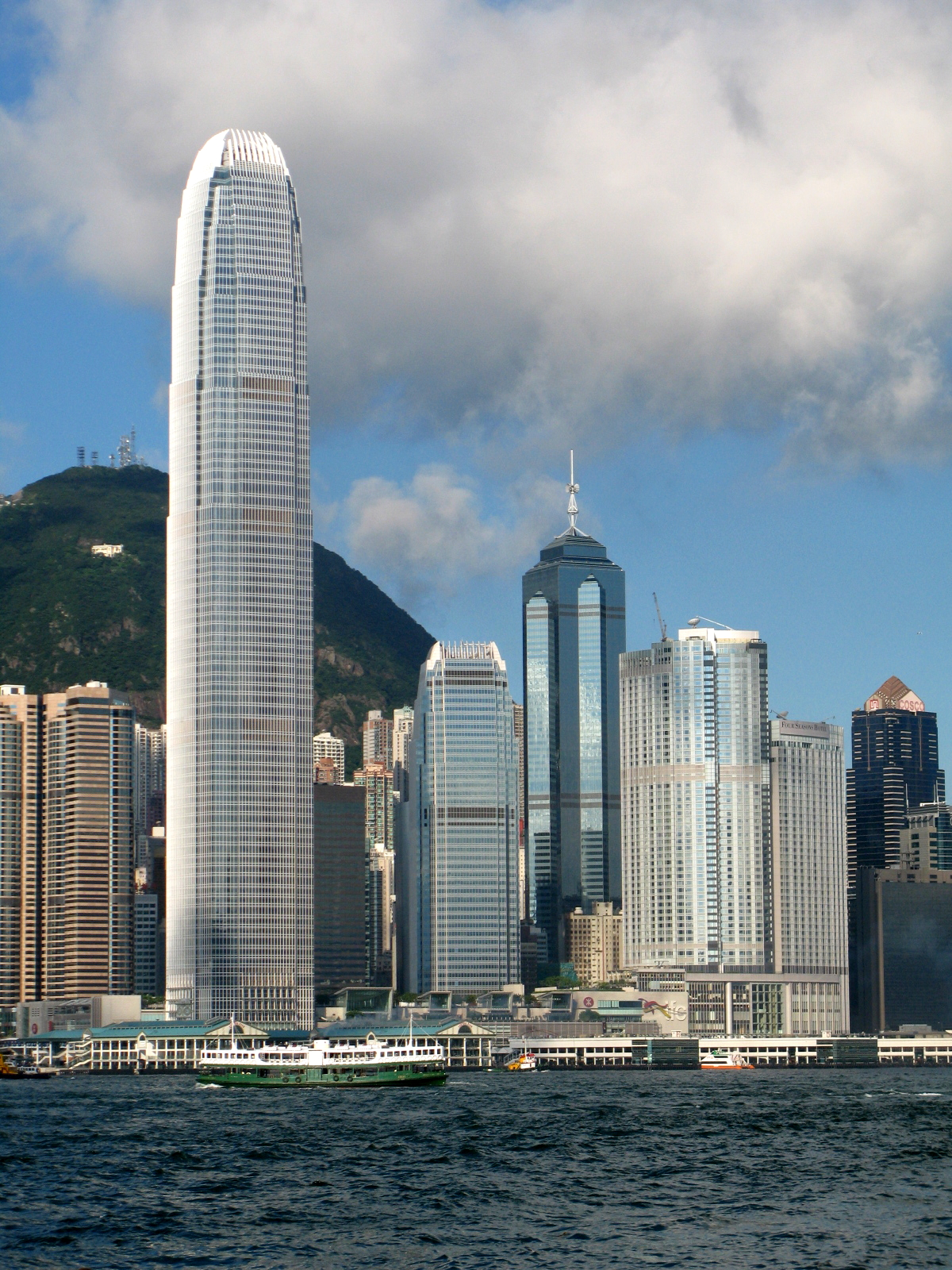 HK ifc Overview 國際金融中心 (香港)